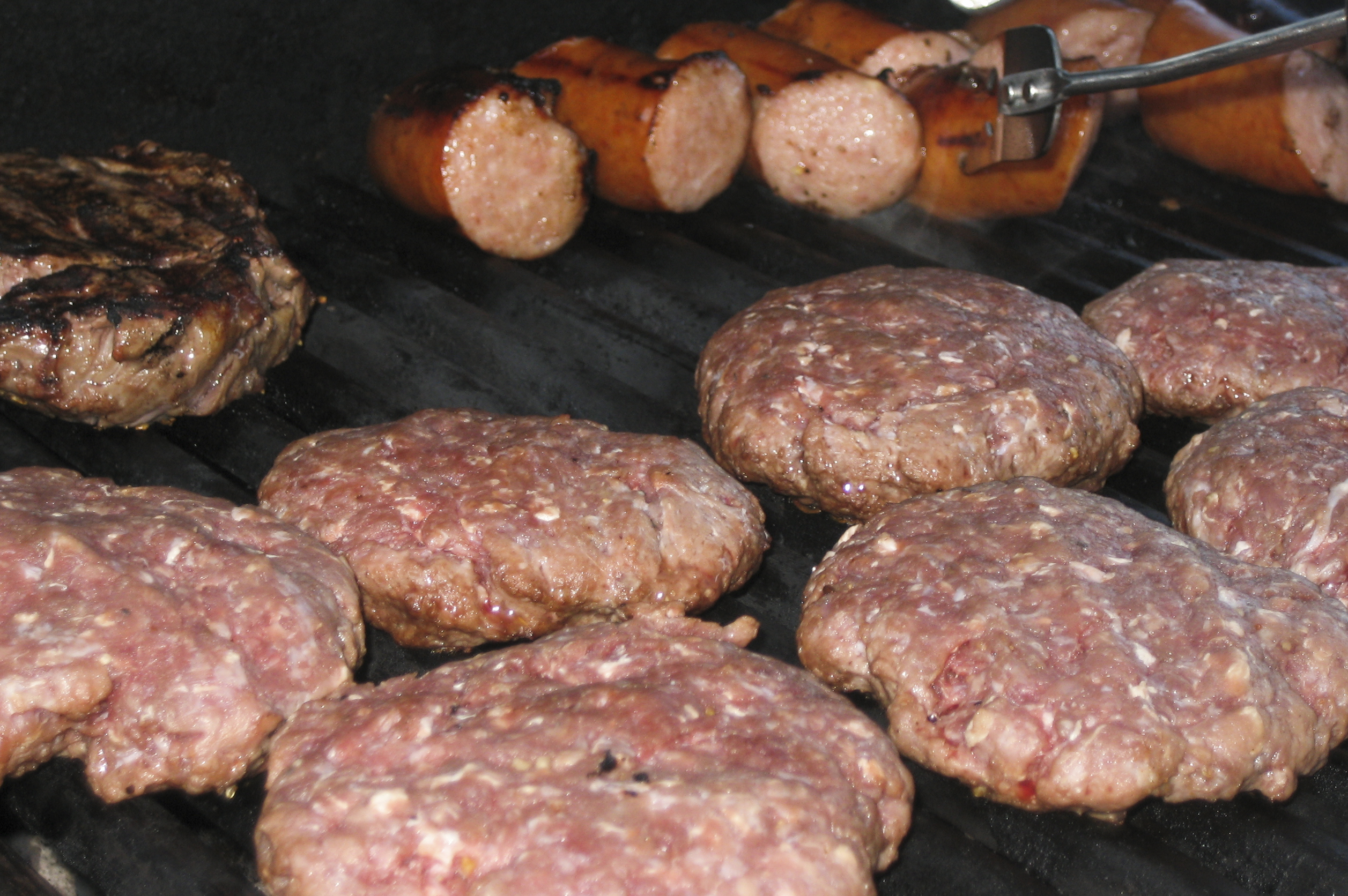 Pieces of meat on a barbecue.